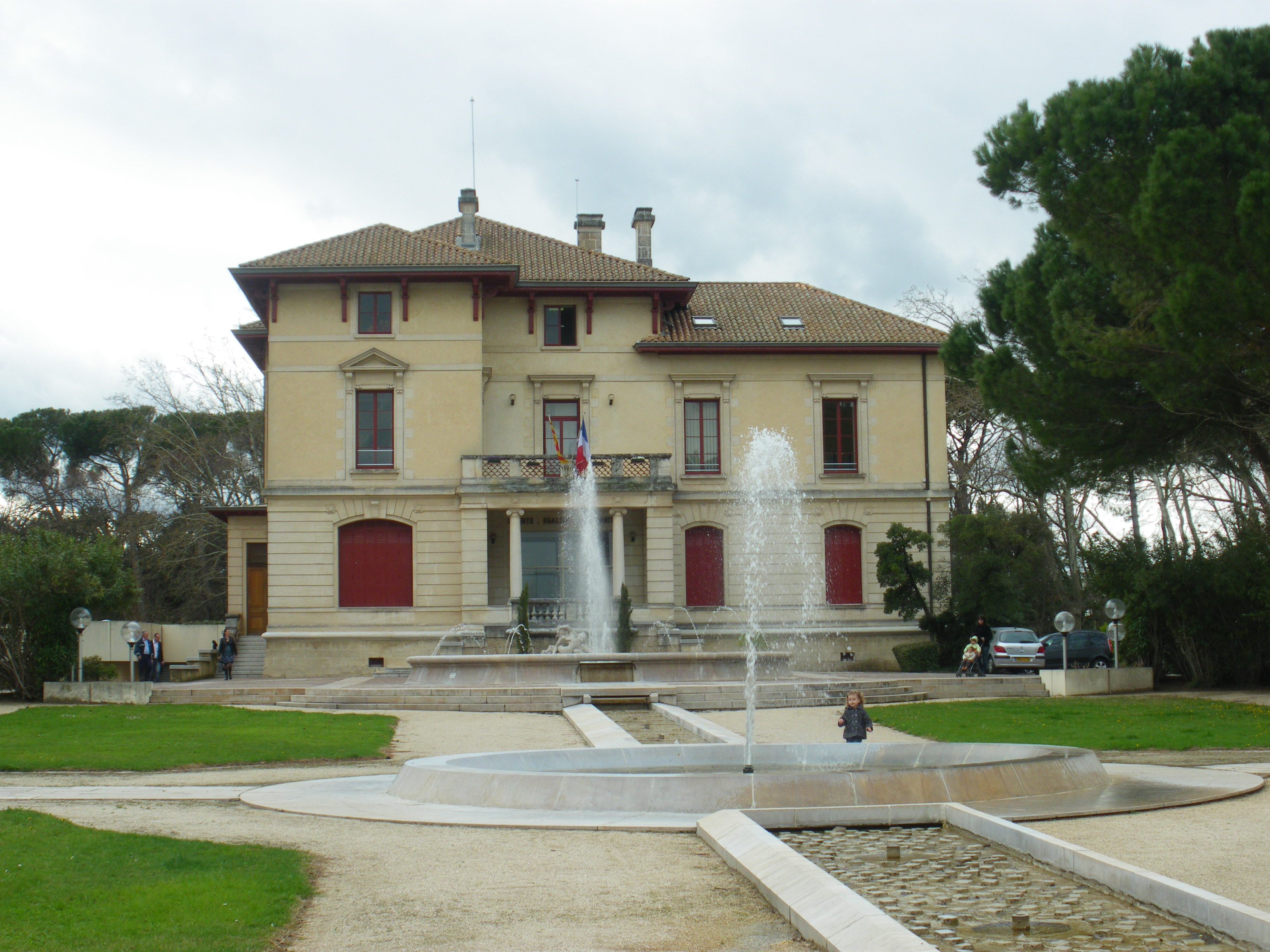 Le Pontet town hall